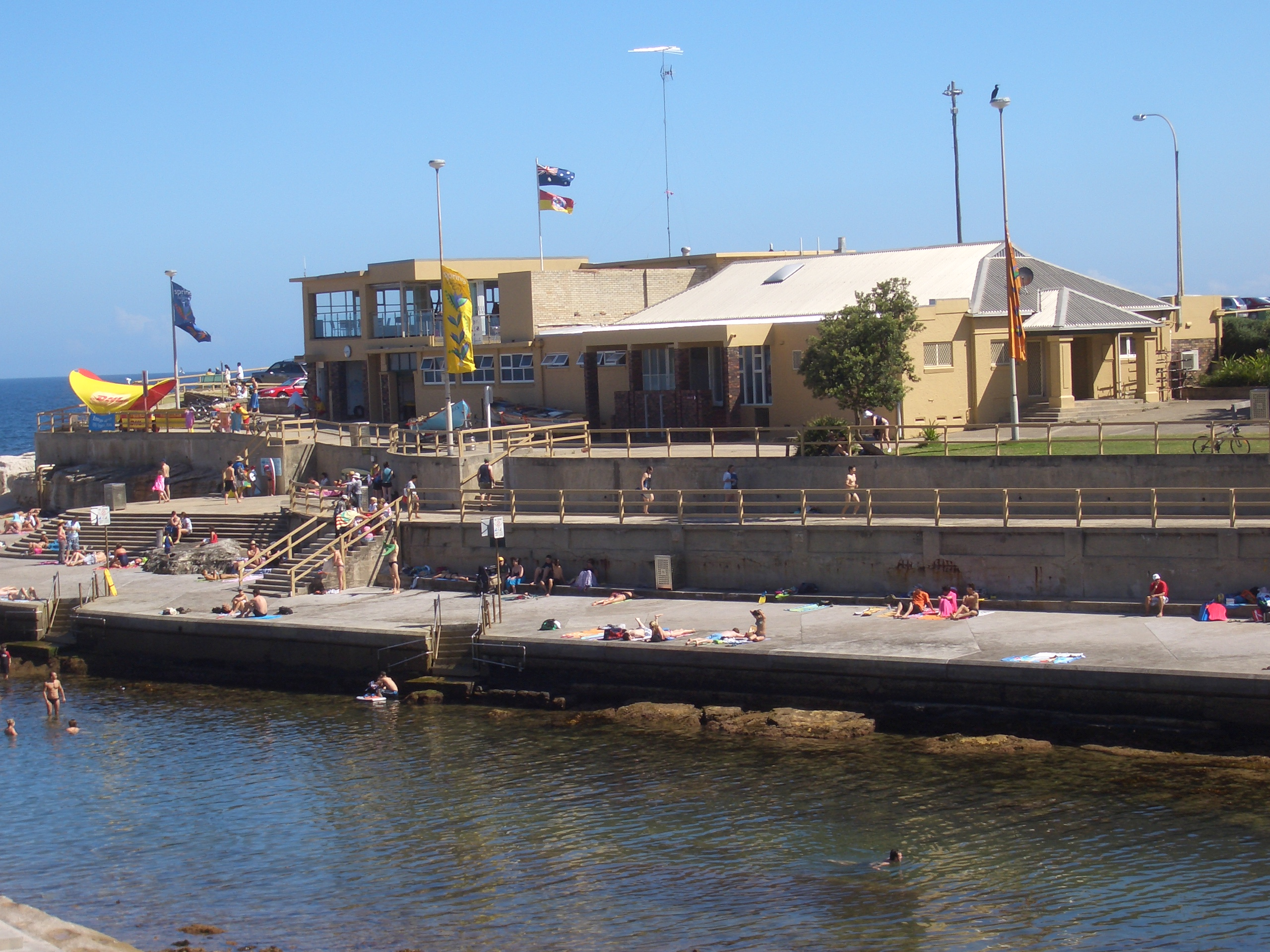 Clovelly Beach